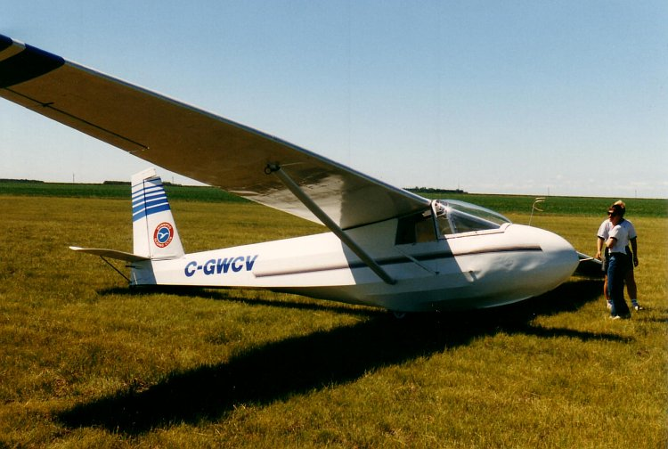 I took this photo of a Schweizer SGS 2-33 (C-GWCV) at Starbuck gliderport in 1990